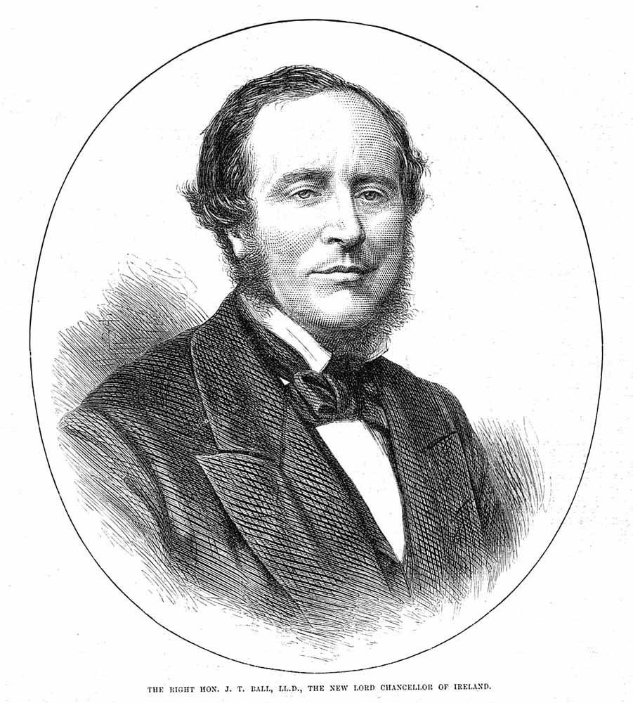 Portrait of John Thomas Ball (1815–1898), Irish barrister, judge and politician, from the Illustrated London News.